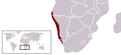 A location map showing the approximate boundaries of the Namib Desert (according to the broadest definition), as well as colonial borders.